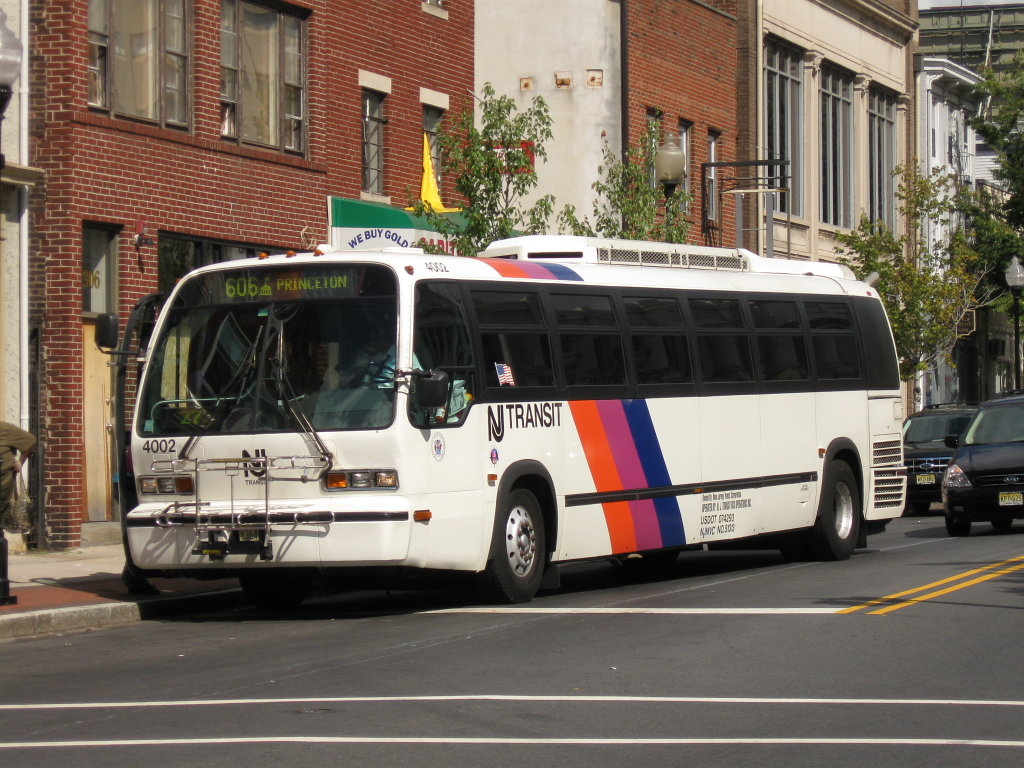 New Jersey Transit Nova Bus RTS hybrid electric #4002 in Trenton, New Jersey, bound for Princeton on the 606.